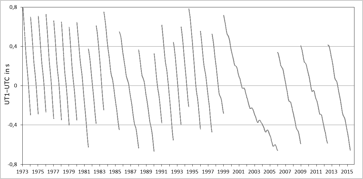 The difference between UT1 (proportional to Earth's rotation) and UTC (derived from atomic clocks) since the beginning of 1973. Intermittently, at full or half years, a leap second is introduced into UTC to keep the difference low.